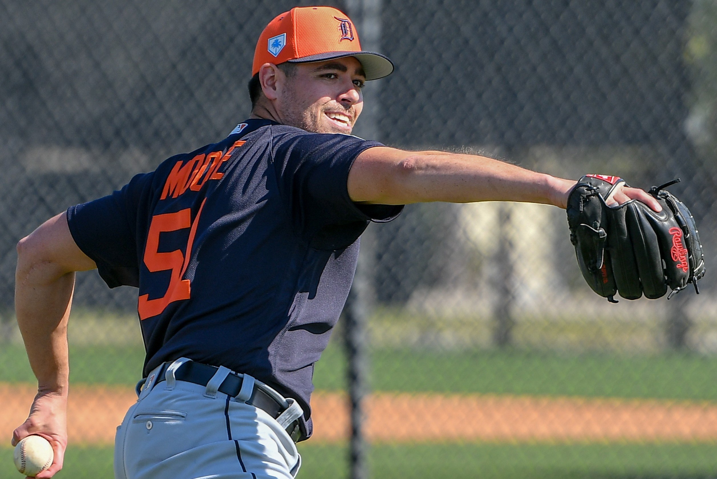 Matt Moore. Tigertown. Lakeland, Fla. Feb. 17, 2019. (Photo by Tom Hagerty.)